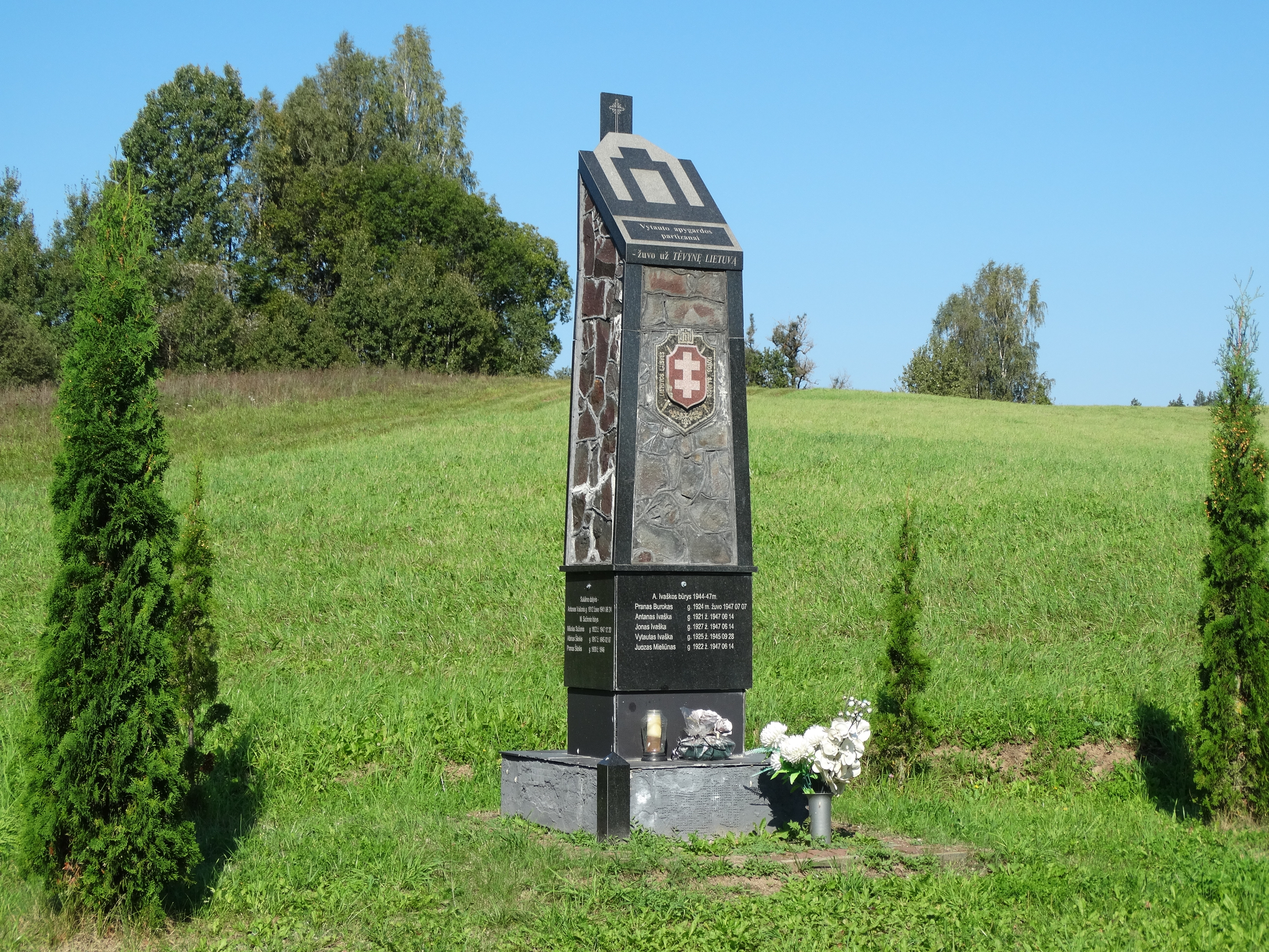 Knipiškės, monument to partisans, Zarasai District, Lithuania